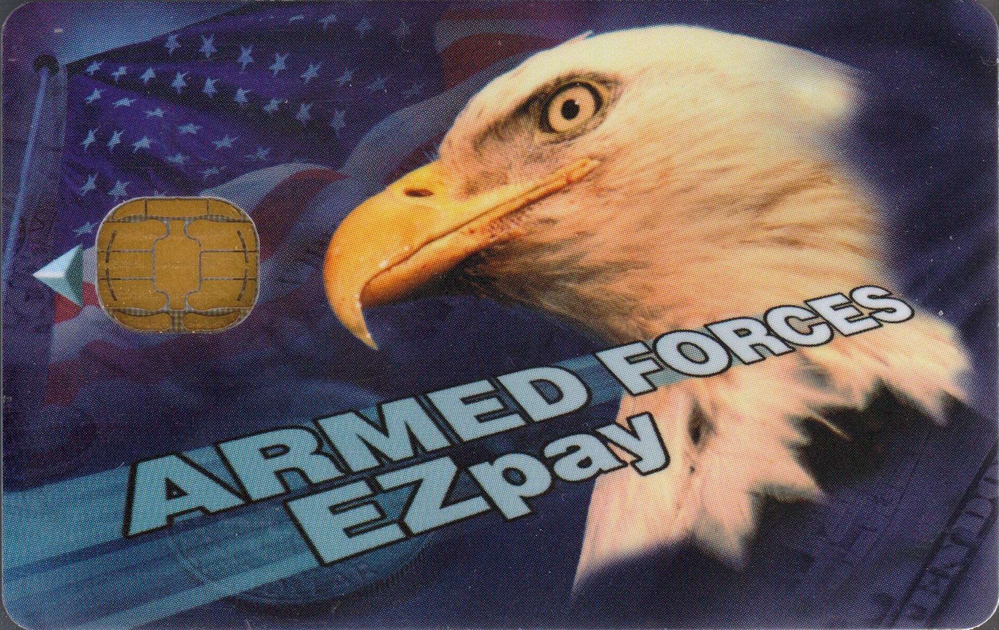 Armed Forces EZpay smart card